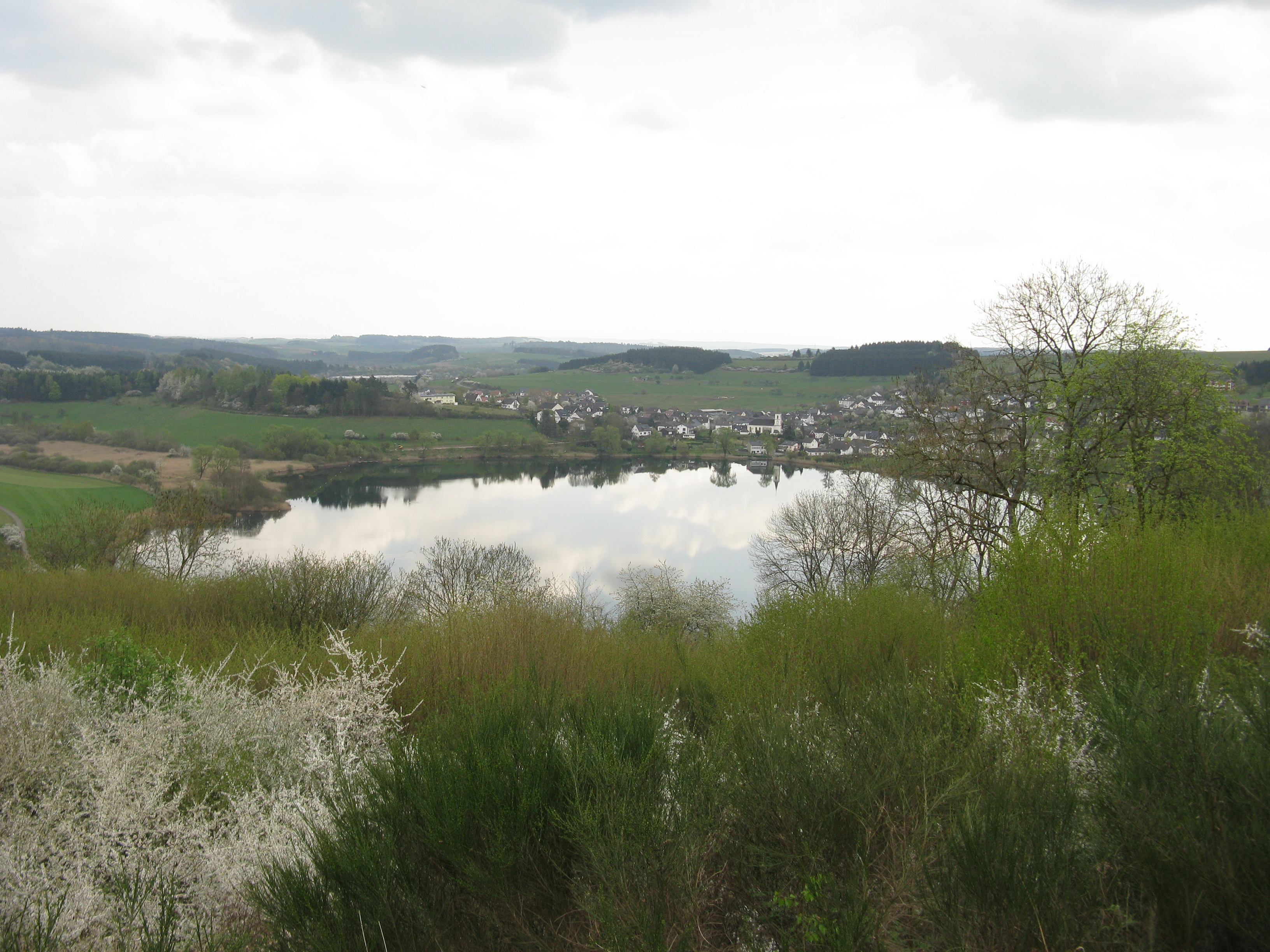 The Schalkenmehrener Maar lake near Schalkenmehren, Rhineland-Palatinate, Germany